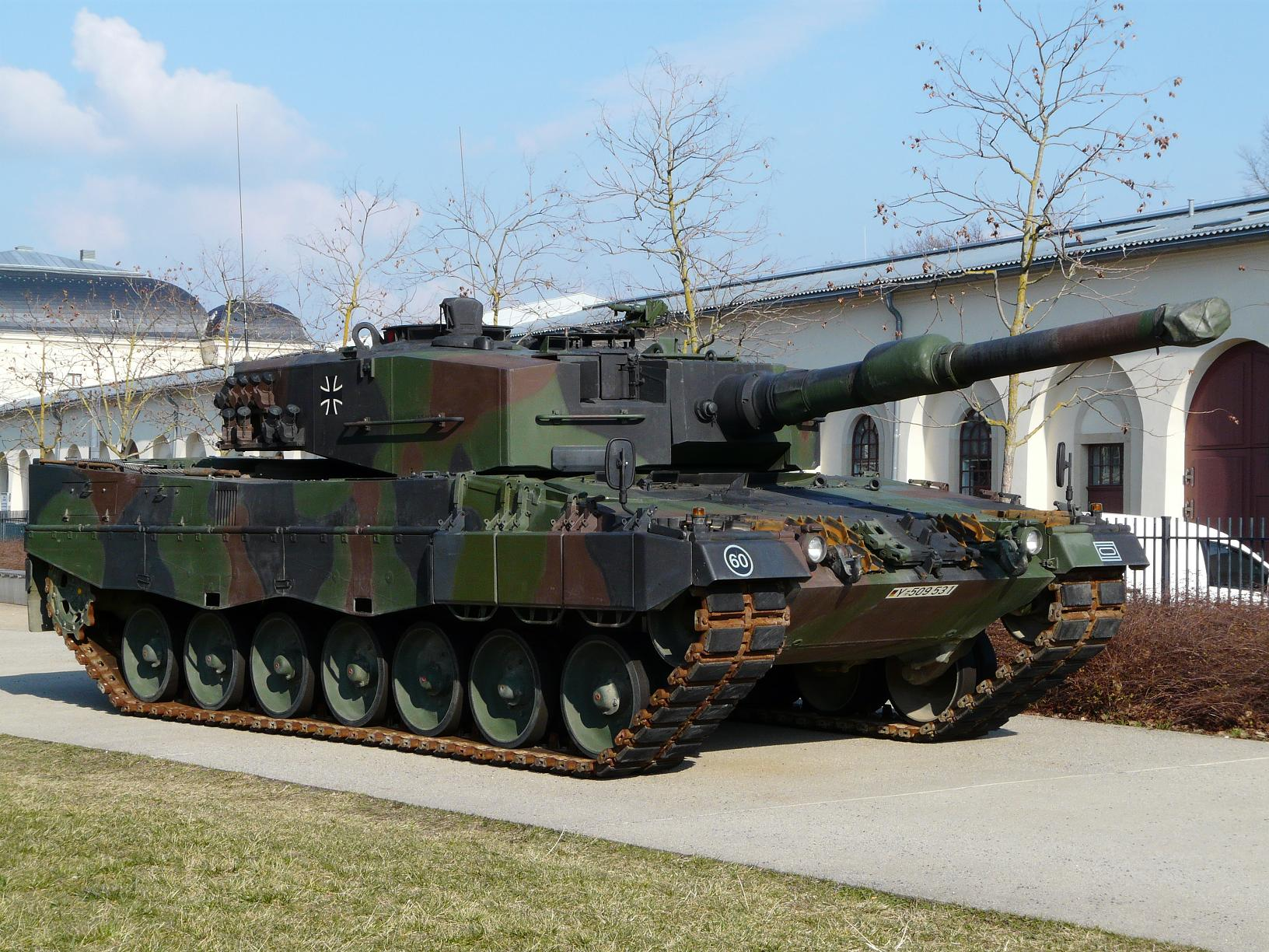 Leopard 2 A4 Main Battle Tank in the Bundeswehr Military History Museum in Dresden.